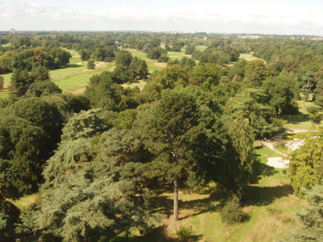 View west from Kew Gardens Pagoda. In the foreground are arboretum trees, on the right the light area is the gravel of the Japanese garden. Beyond is the Royal Mid-Surrey golf course in the Old Deer Park.